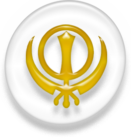 Symbol of Sikhism, white and golden version.